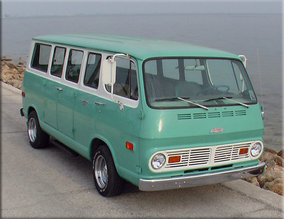 1968 Sportvan Custom 108" 307 V8 with 2 speed powerglide Owned by Carl Giustozzi of Tampa, FL